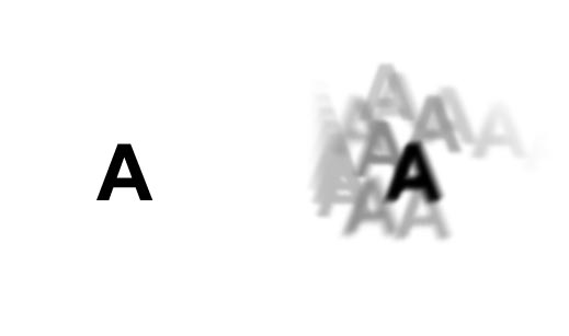 An illustration of visual sensation of the eye with monocular polyopia